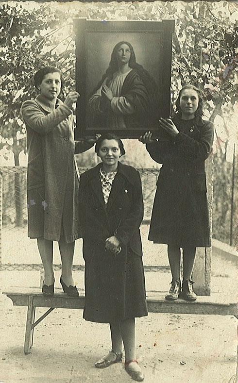 Picture of Angelina Pirini